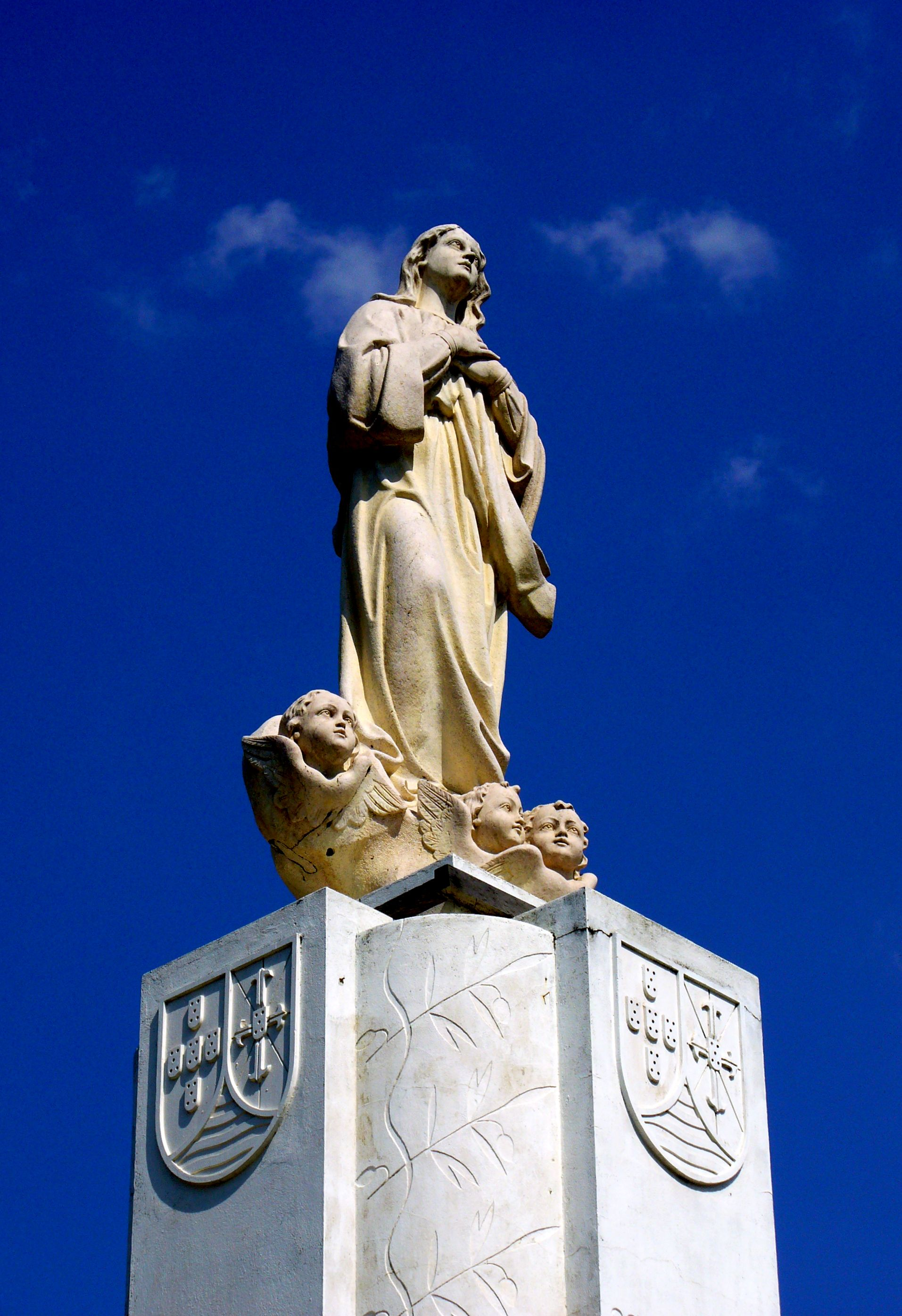 Virgin Mary Statue, Dili, East Timor